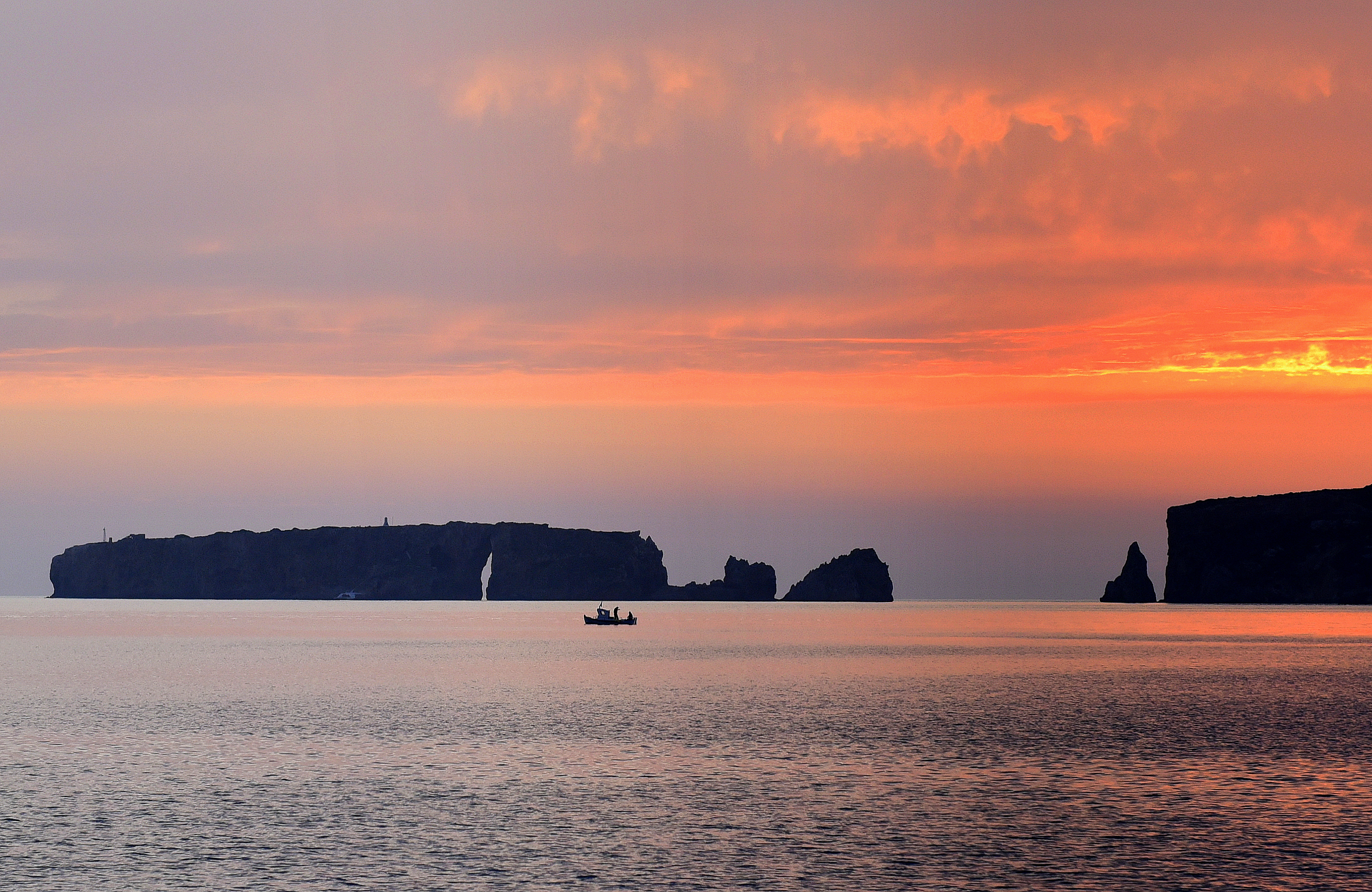 This is a photography of Natura 2000 protected area with ID GR2550008